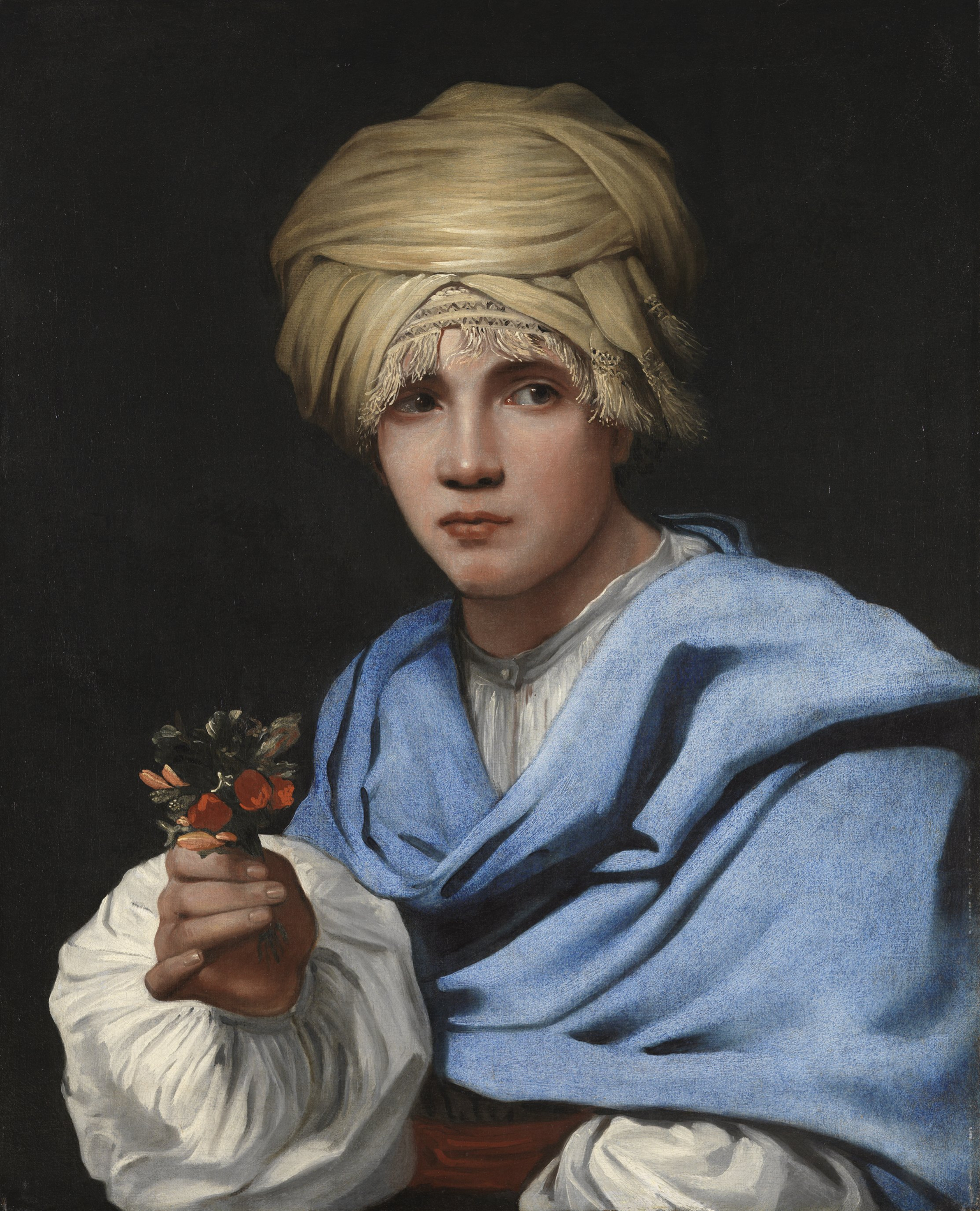 Boy in a Turban holding a Nosegay